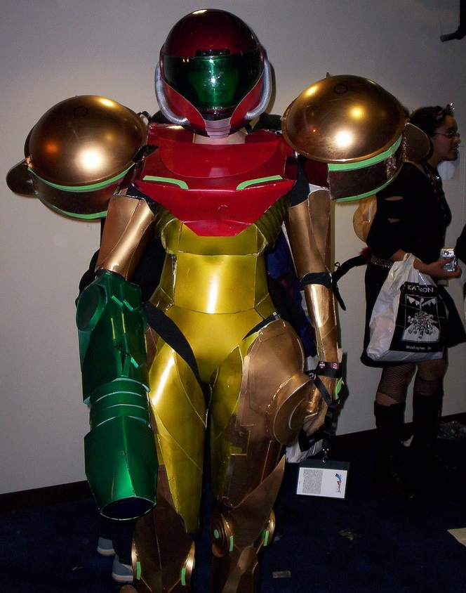 This photo was taken on February 18, 2006 using a Kodak EasyShare CX7300.